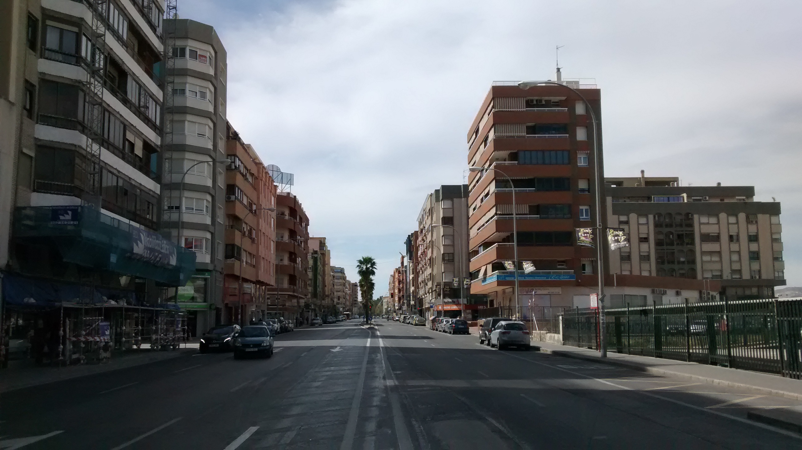 Avenue in Alicante, Spain.